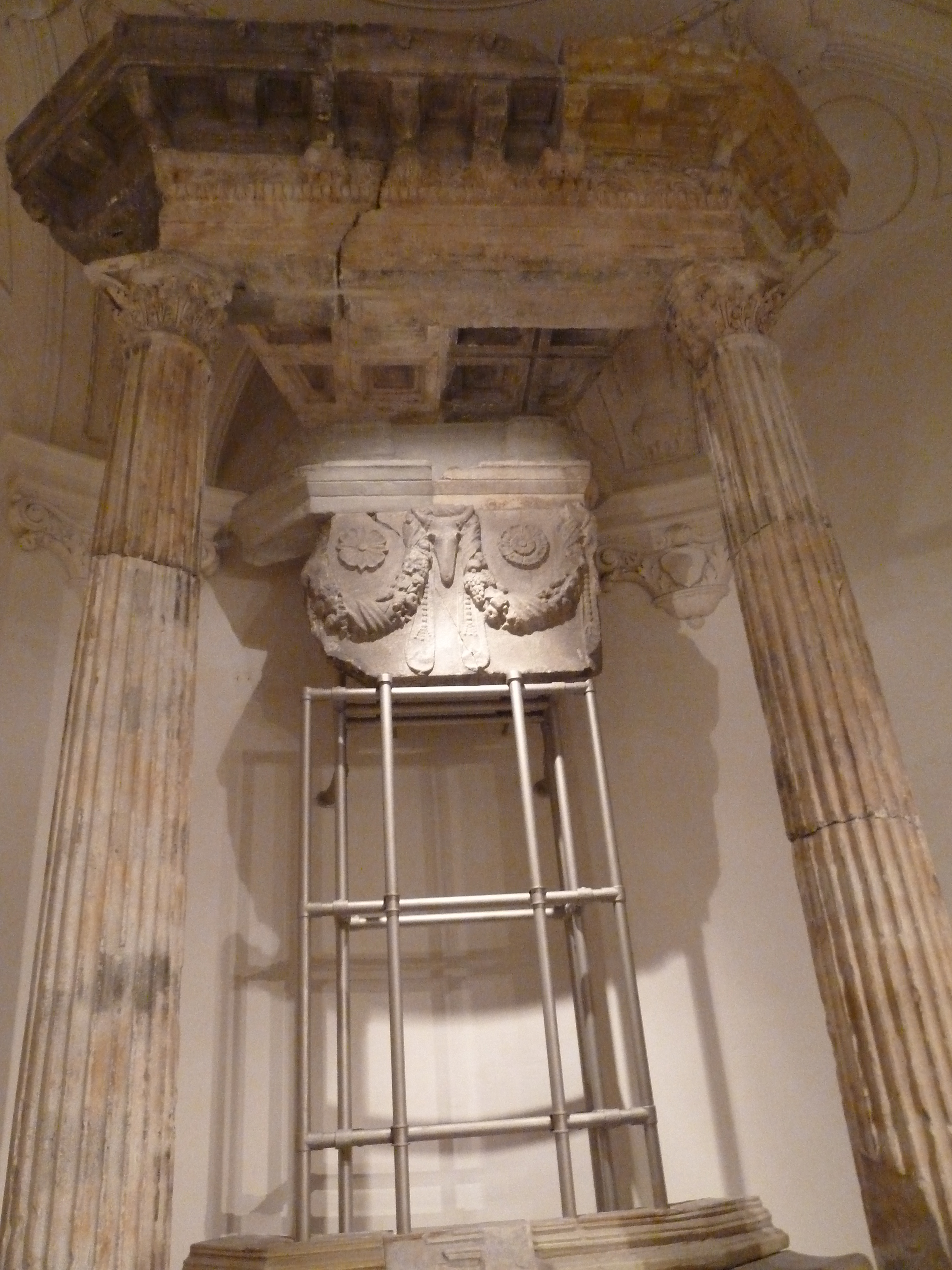 Ephesos-Museum, Vienna